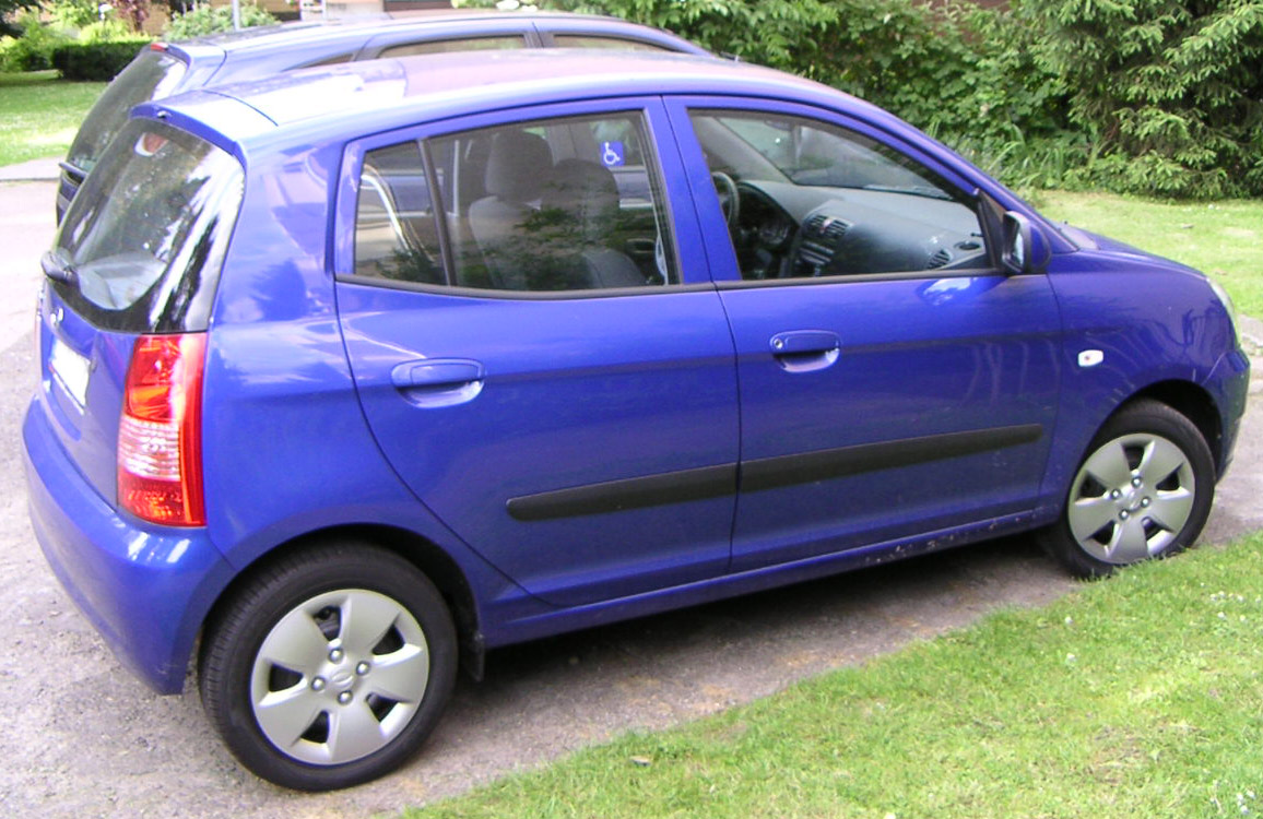 Blue Kia Picanto.